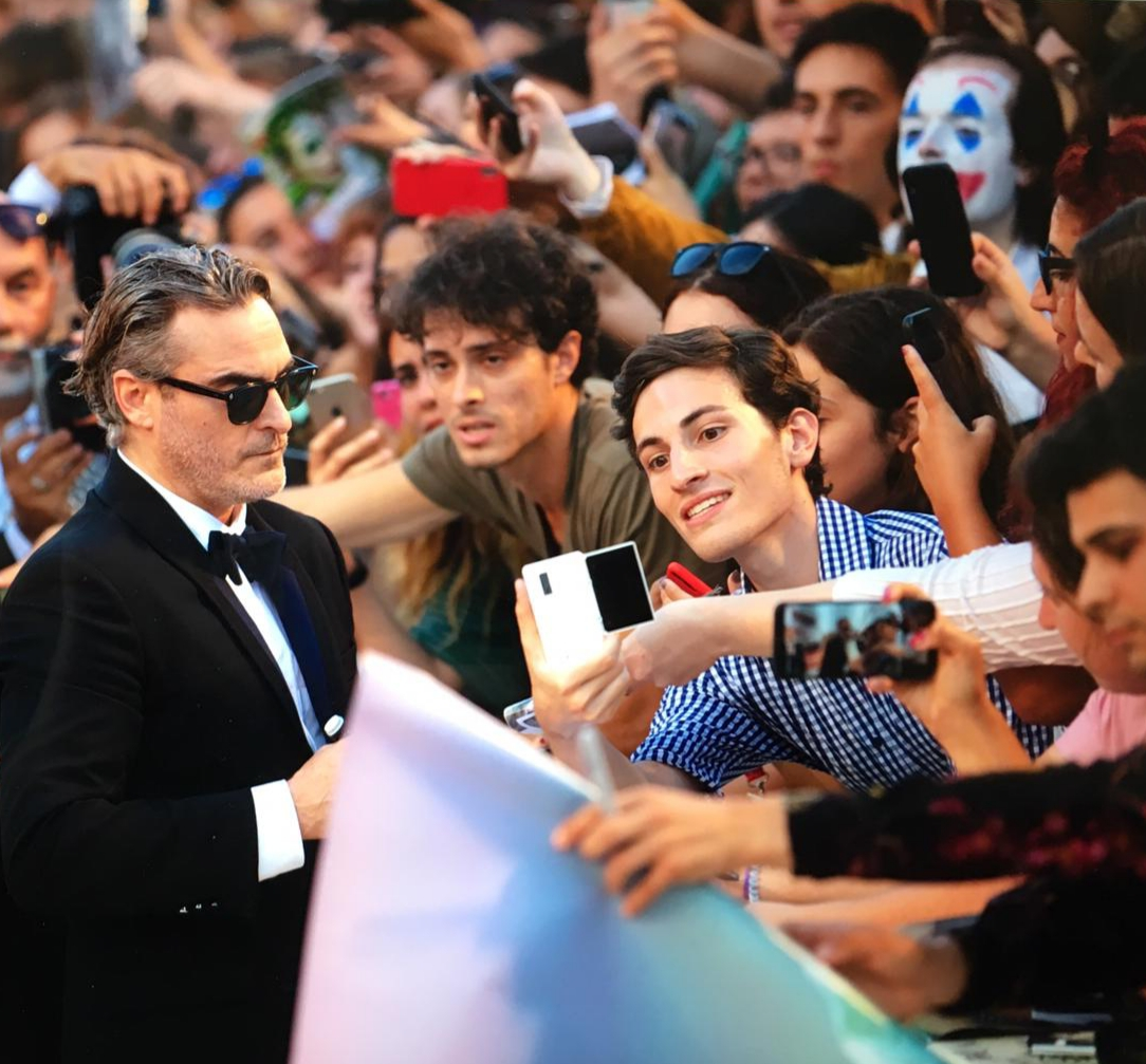 Joaquin Phoenix on the red carpet at 76. Venice Film Festival